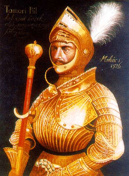 Pál Tomori, Hungarian archbishop and royal commander from the XVI century.